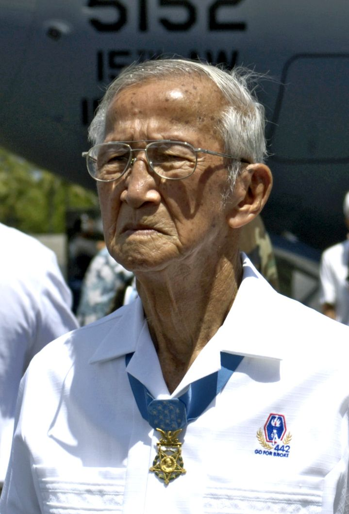 Barney Hajiro, World War II Medal of Honor recipient, at a ceremony celebrating veterans of the 442nd Combat Regimental Team at Hickam Air Force Base, Hawaii, on Wednesday, June 14, 2006.